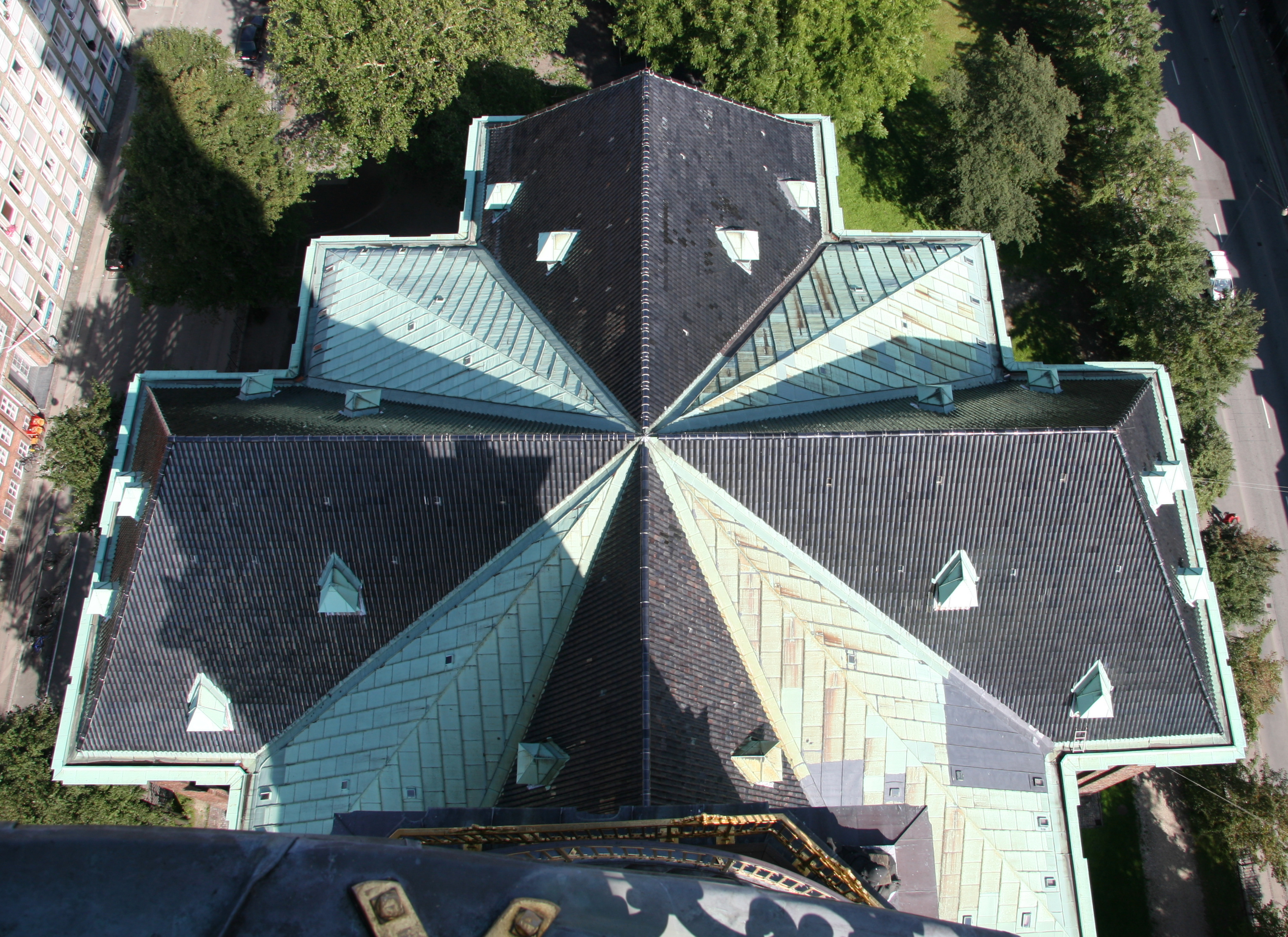 Vor Frelser Kirke (Church of Our Saviour), Copenhagen, Denmark. Roof viewed from the steeple.